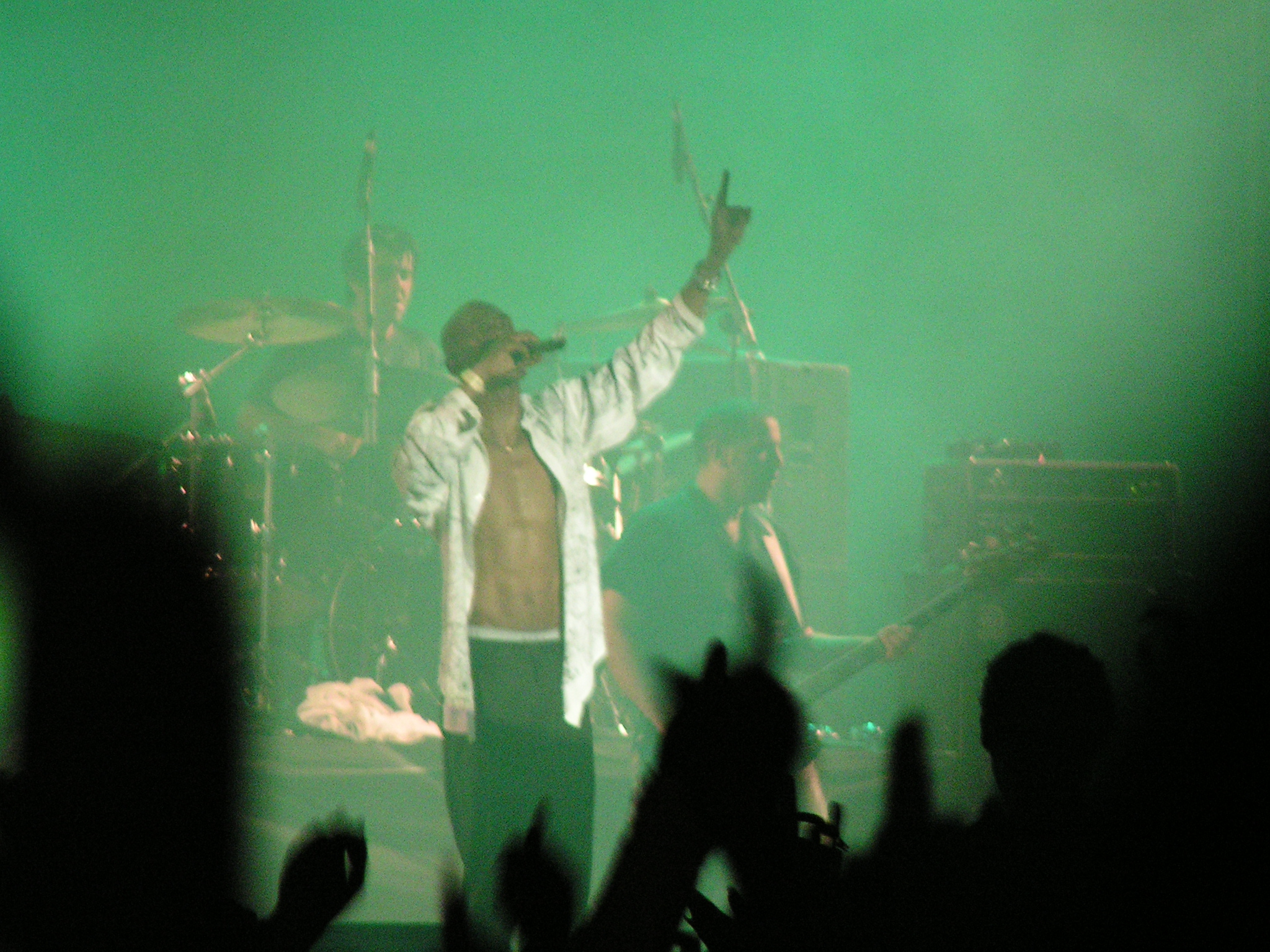 Faithless at the Orange Music Experience Festival, Haifa 2005